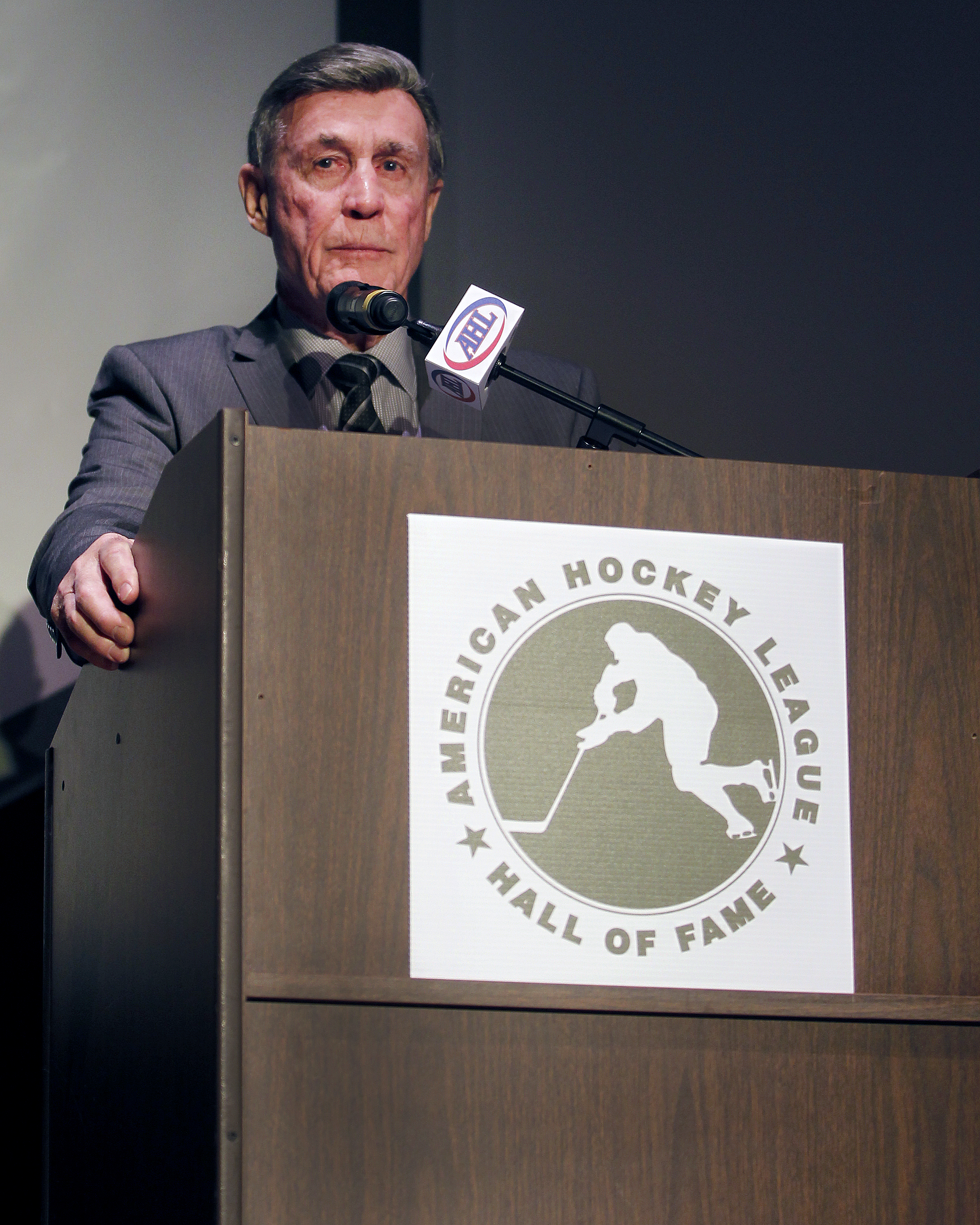 Alan Sullivan - Photographer American Hockey League (AHL). 2013 AHL Hall of Fame Ceremony. Taken on January 28, 2013.